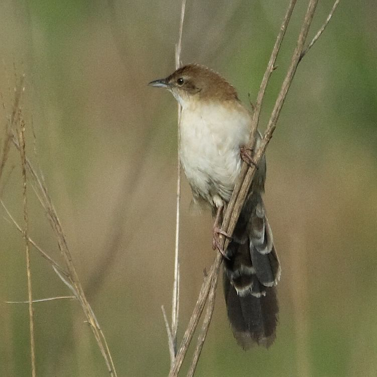 Fan-tailed Grassbird (Schoenicola brevirostris) Aka Broad-tailed Warbler. Location: Cedara Farm, Pietermaritzburg, KwaZulu-Natal, South Africa.